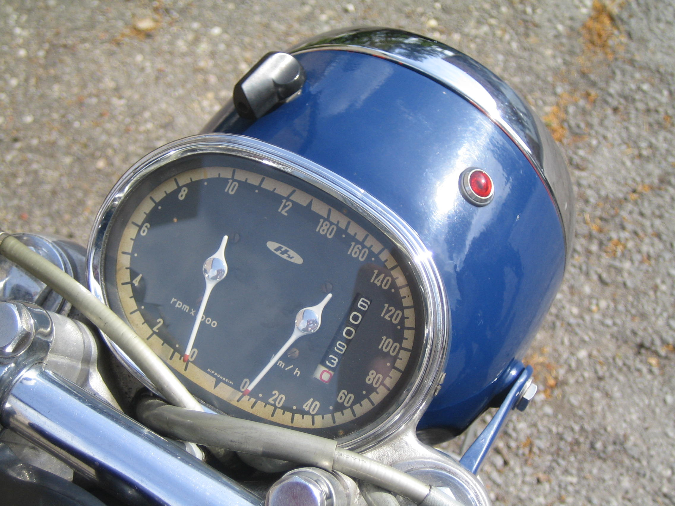 Honda CB72 controls and instruments 1961